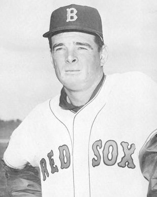 Professional baseball player Dennis Bennett